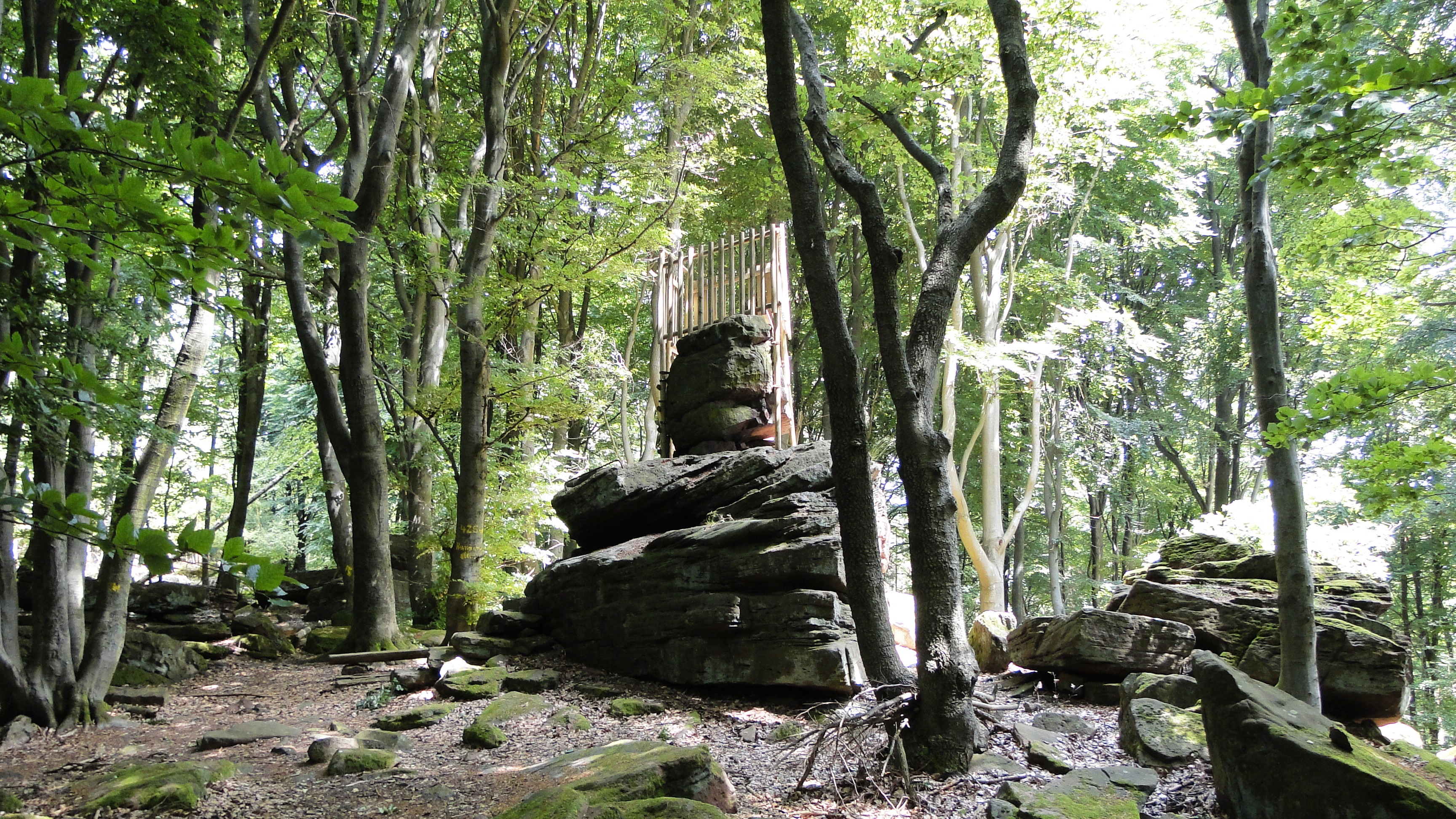 "Hunnenstein": sandstone outcropping with viewing platform on the Langenberg between Großheubach and Bürgstadt, Spessart, Lower Franconia, Bavaria, Germany